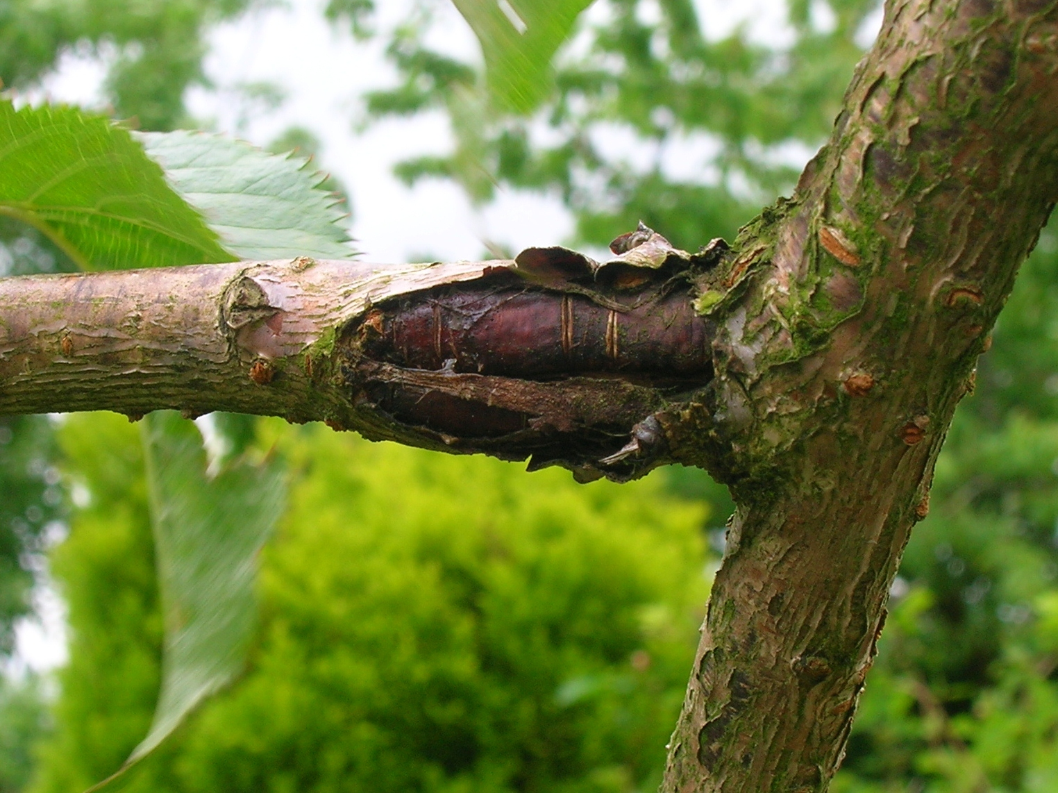 Bacterial Canker lesion on Prunus avium, Chapeltoun, North Ayrshire, Scotland.